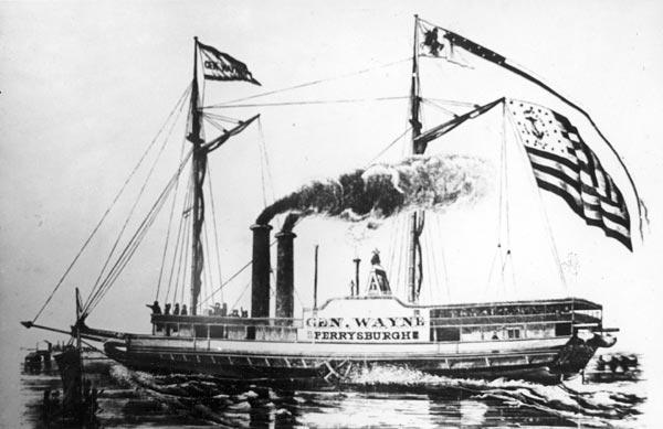 The steamboat Anthony Wayne underway